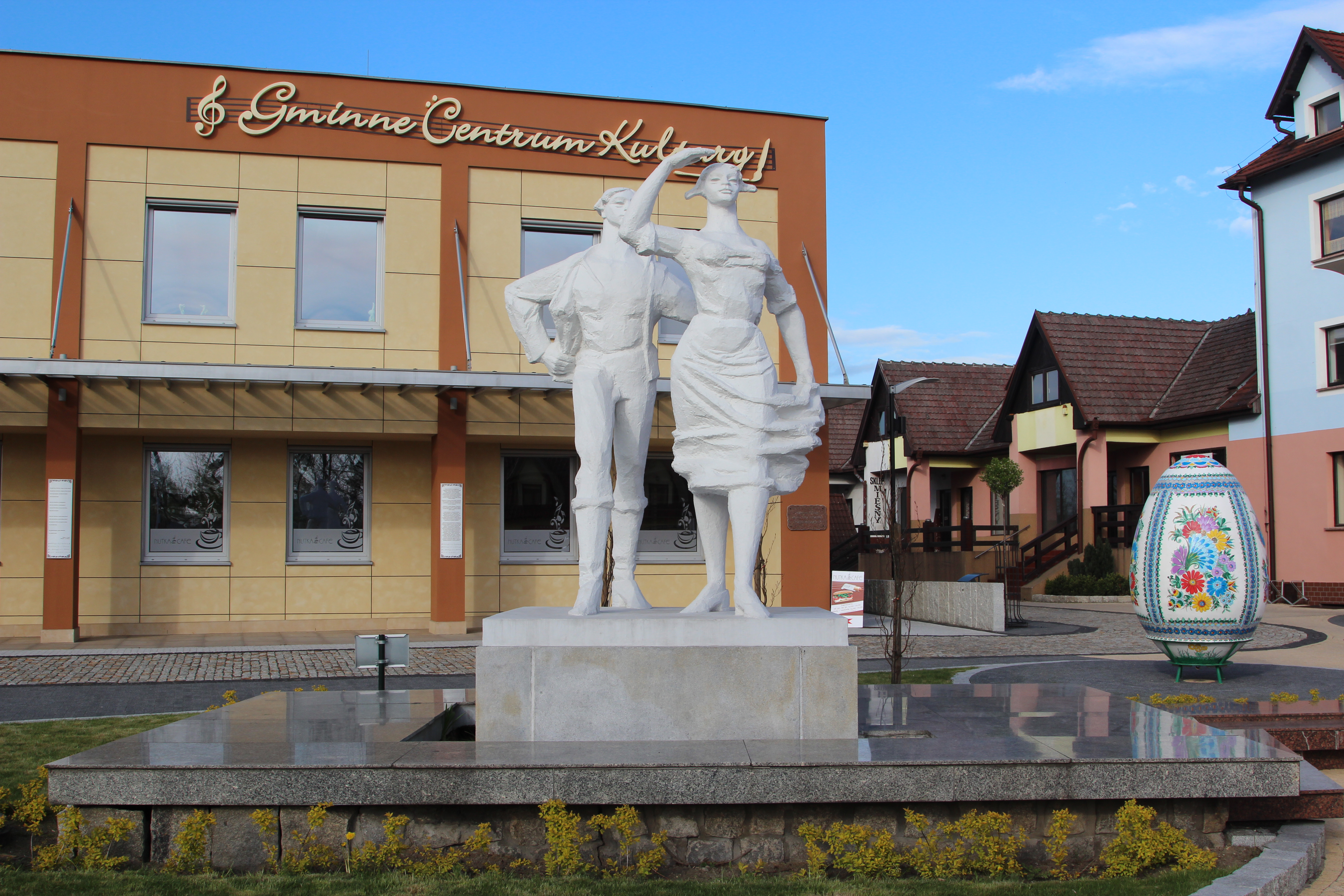 Karolinka and Karlik statue in Gogolin